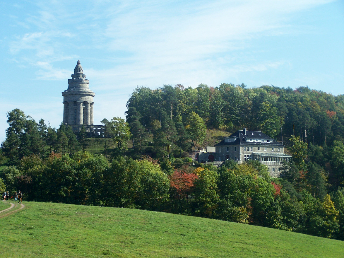 The Göpelskuppe hill in Eisenach.